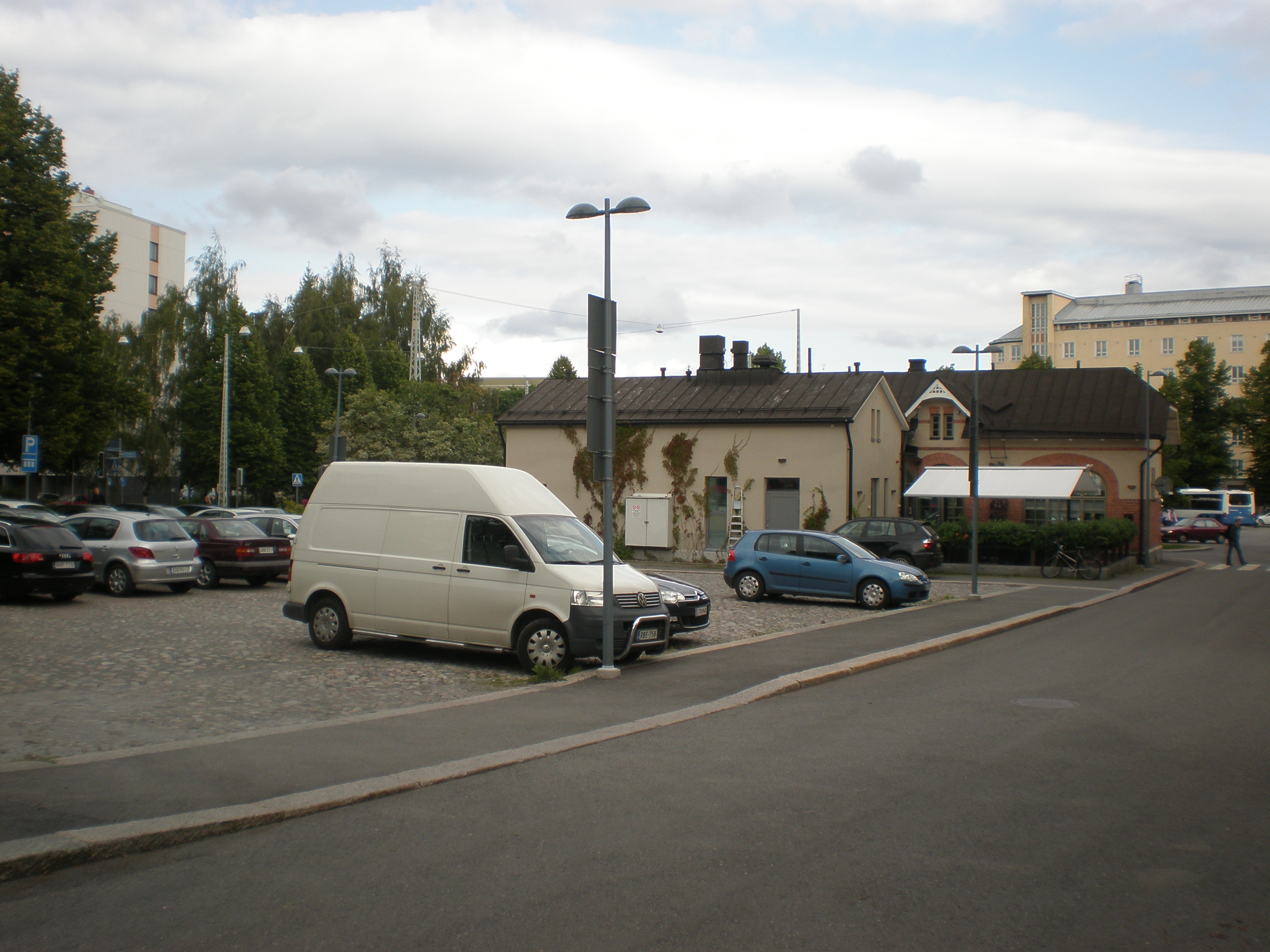 Old Heinätori square at Tampere.